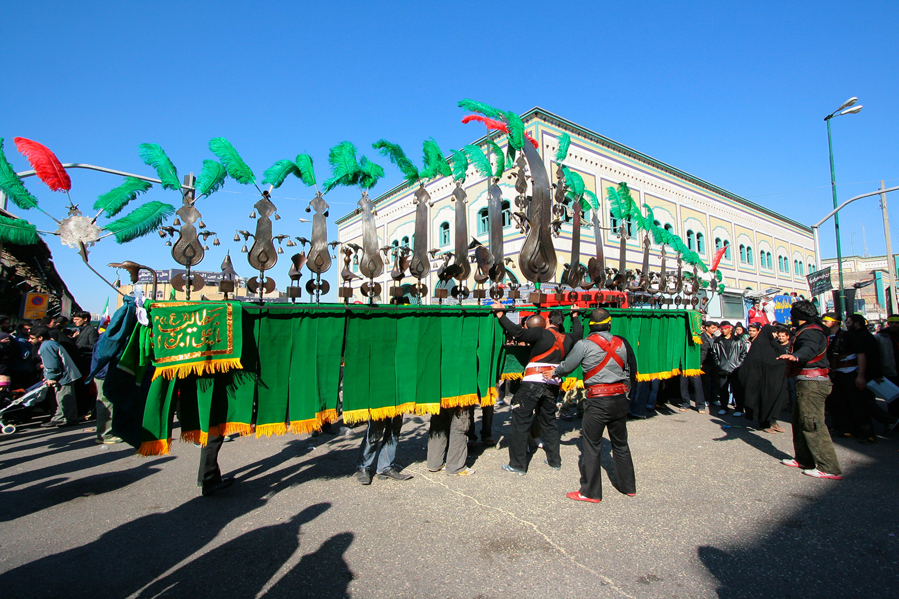 Mourning of Muharram